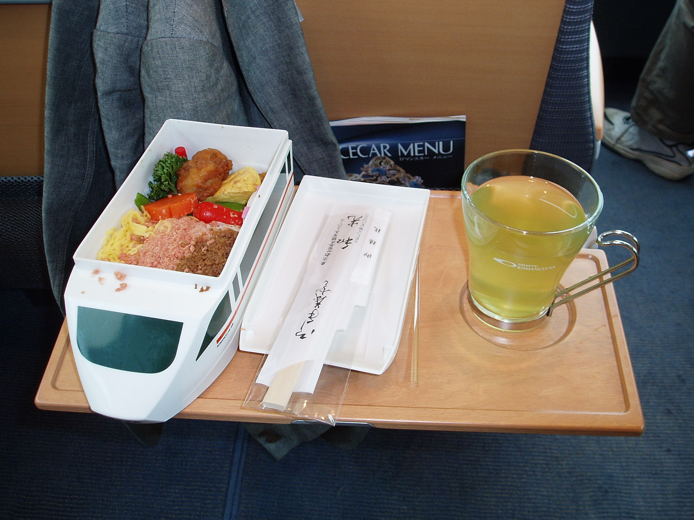 Box lunch "Bento" sold in car of Odakyu Electric Railway type 50000 series "Vault Super Express(VSE)"